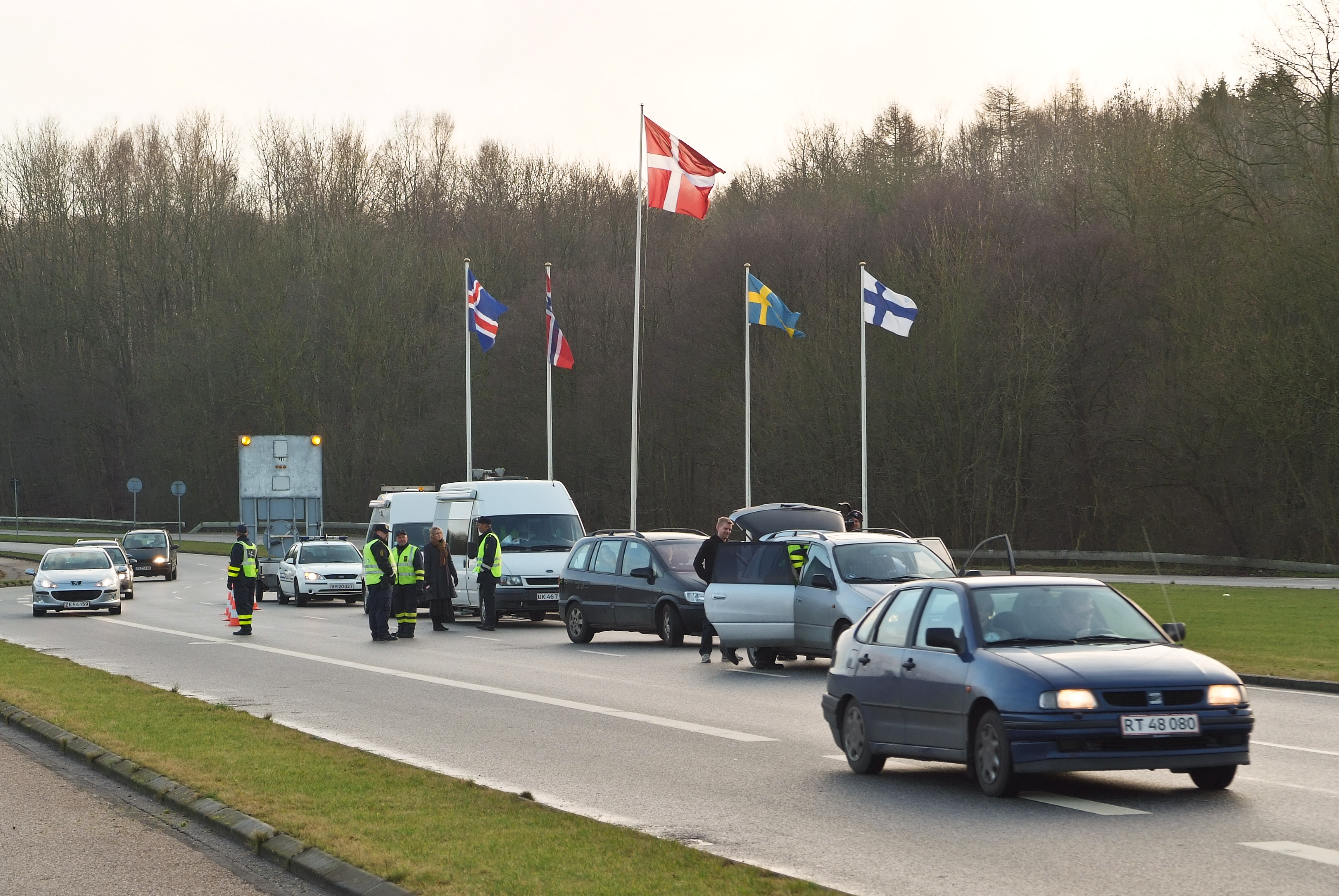 Border control in Kruså (Denmark). Despite the Schengen Agreement there are random tests, like here on the Danish side of the border near Kruså.